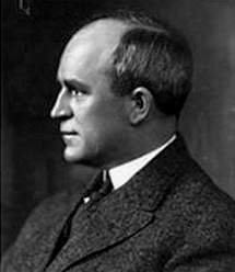 Official U.S. Senate photograph of Missouri Senator George H. Williams.